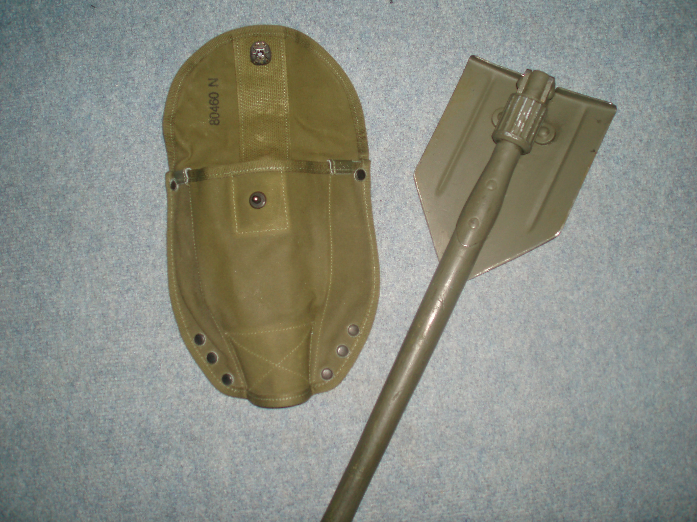 US Entrenching tool M43 with cover